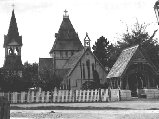 St. Augustine's Church, John Street, Waimate, New Zealand built 1872–3, enlarged 1883 with addition of lantern tower. Lych gate added 1902. Bell tower added 1903.